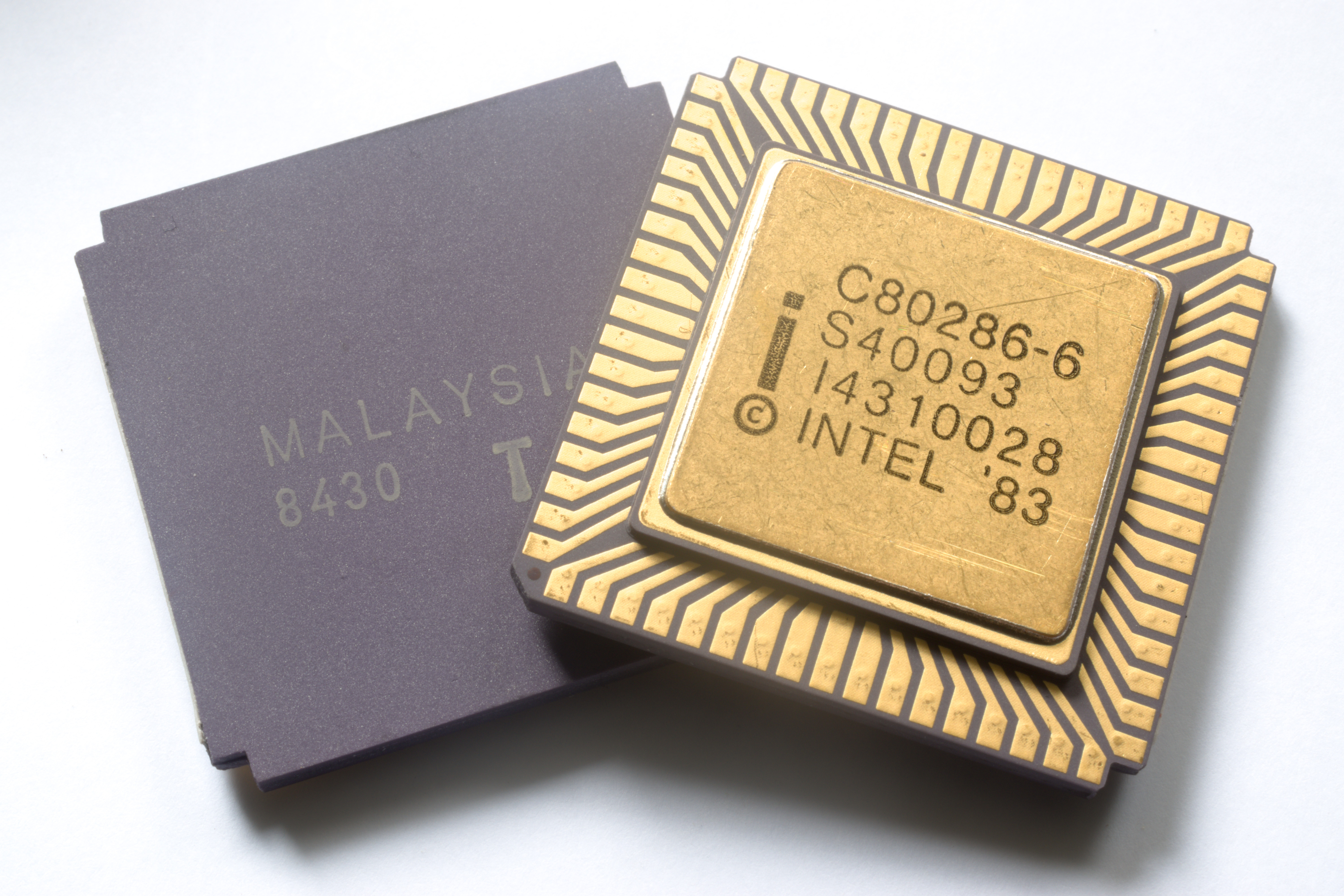 Two Intel 80286 6 MHz CPUs, Clcc type (C80286-6).